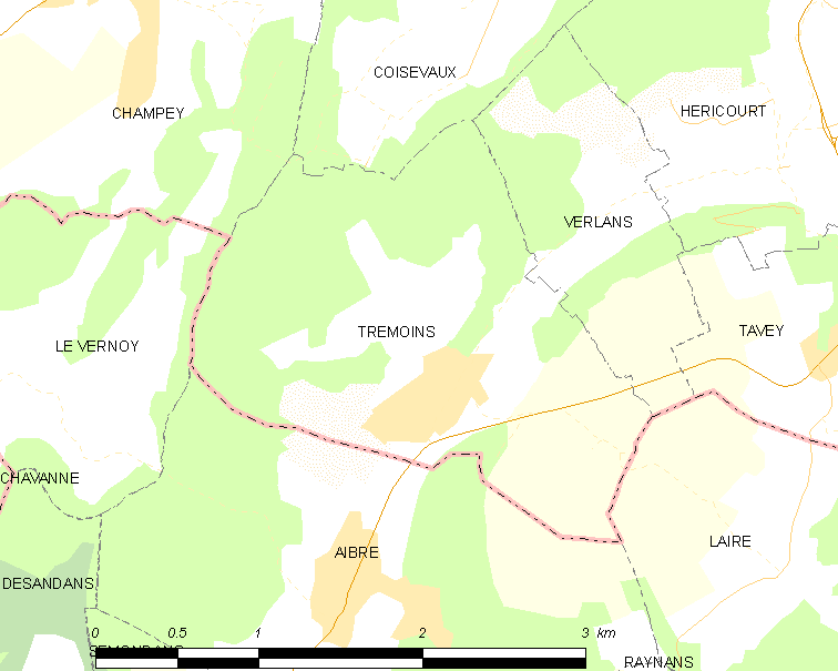 Map of French municipality